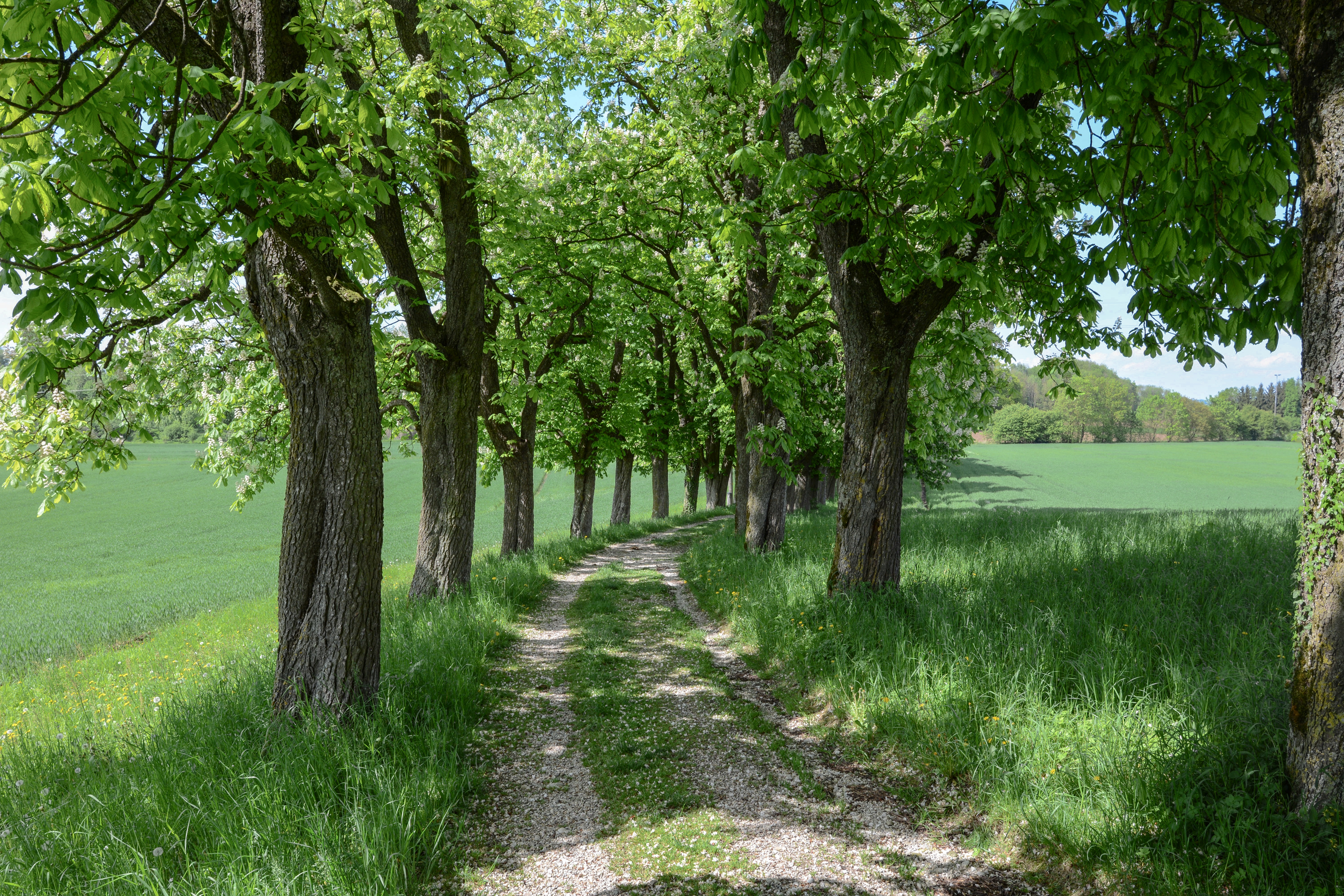 Close to the parish church of Bad Wimsbach-Neydharting there is a double-row alley of horse chestnut trees, probably planted in 1893 and protected as natural monument of Upper Austria. This media shows the natural monument in Upper Austria with the ID nd058.